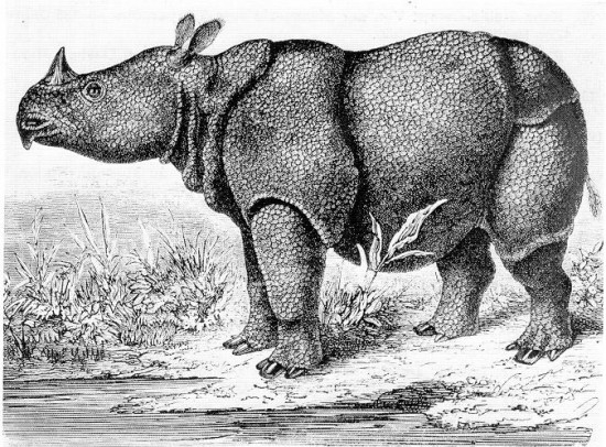 Javan rhino in Schlegel 1872. The origin of the image is not certain. It may have been an animal in the Amsterdam Zoo.